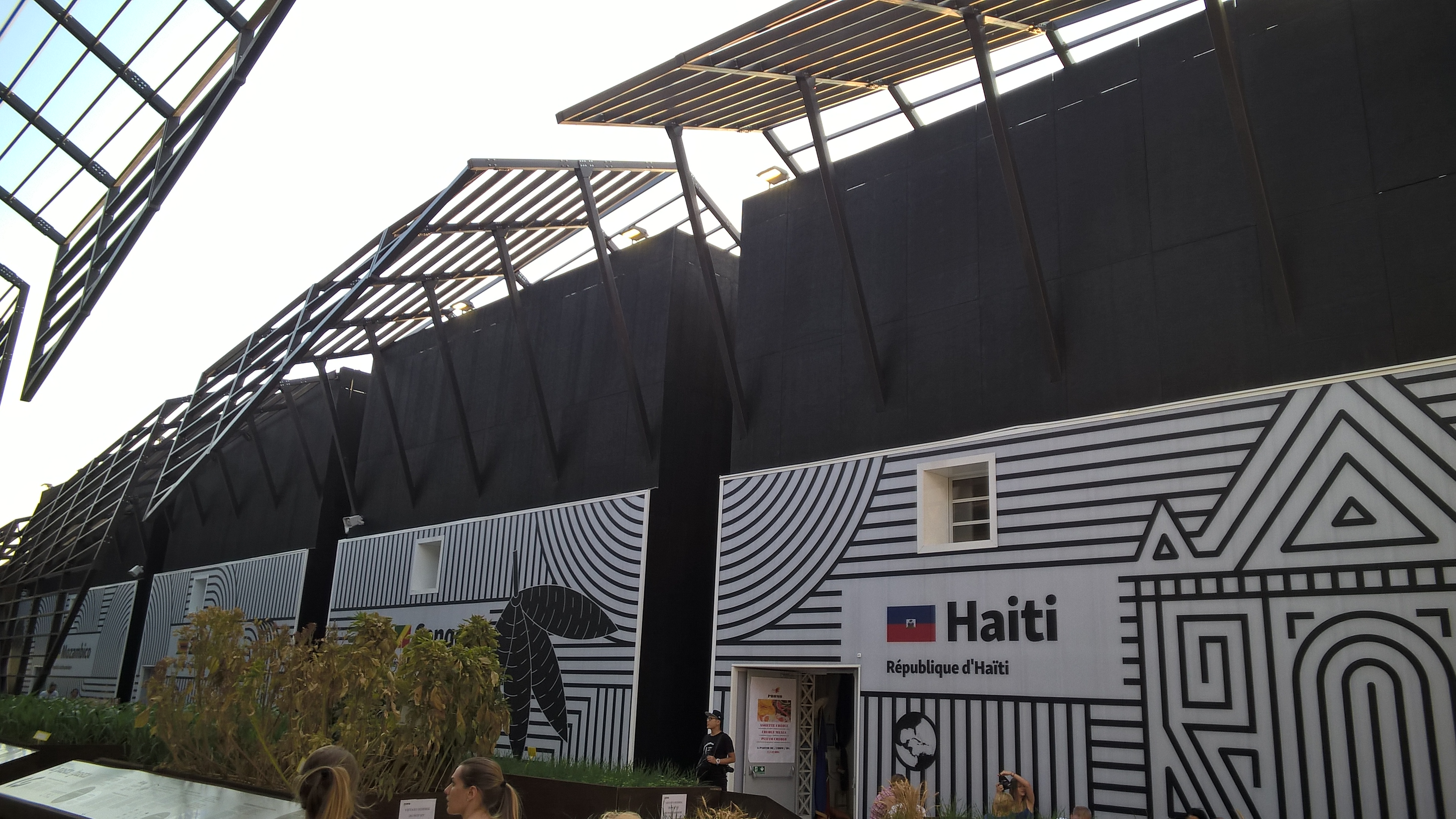 Cereals and tubers cluster at Expo 2015 Milano